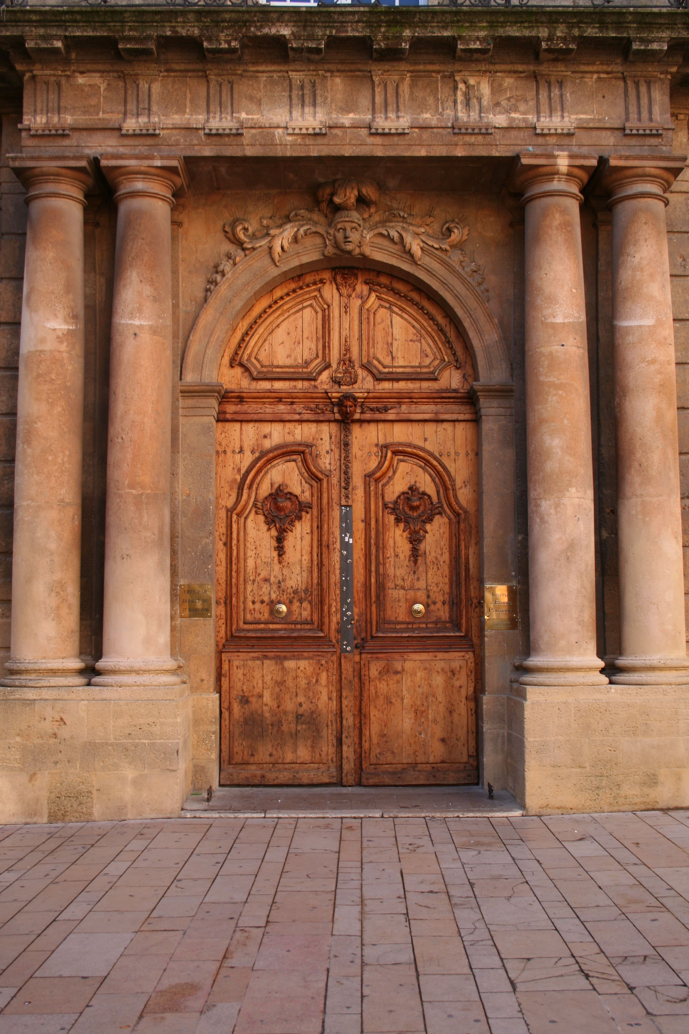 Door of the Institut d'études politiques in Aix-en-Provence, France.